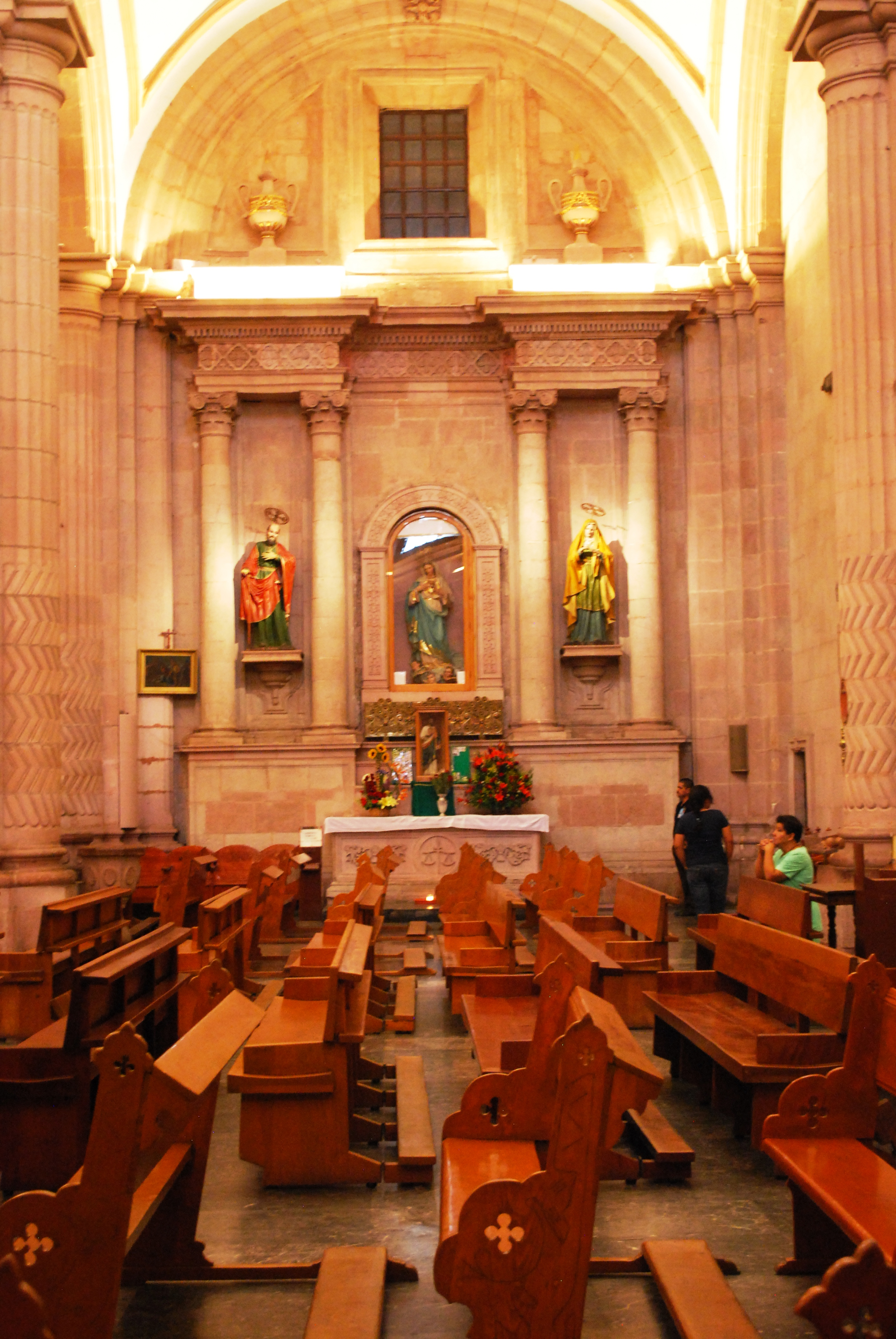 Side altarpiece in the Cathedral of Zacatecas, Mexico